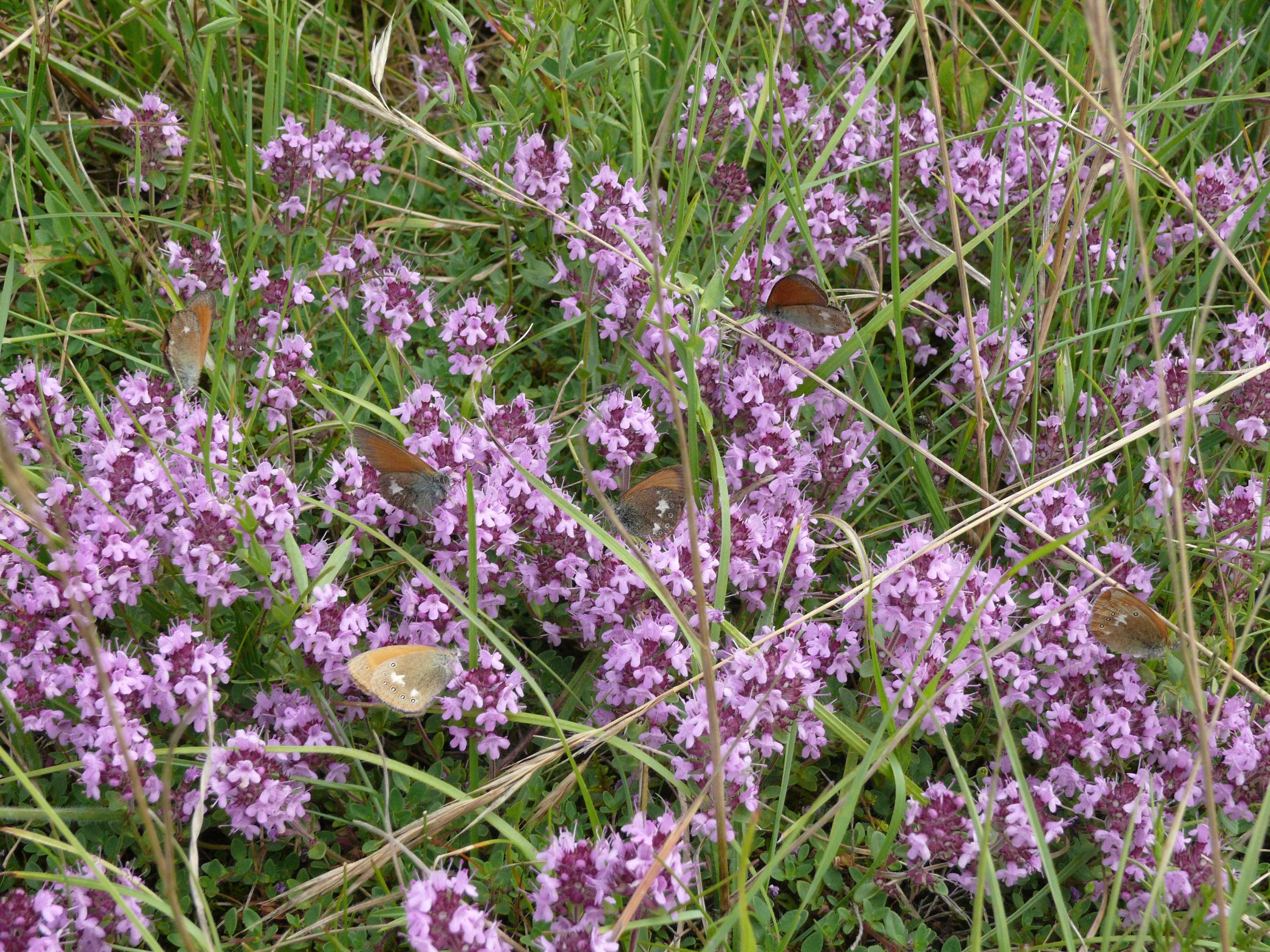 Chestnut Heath (Coenonympha glycerion), Mallertshofener Haiden, Oberschleißheim, Germany